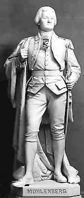 Peter Muhlenberg, sculpted by Blanche Nevin